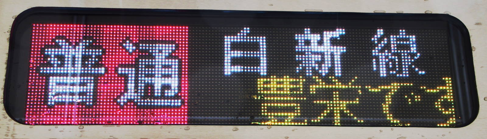 The exterior LED destination indicator on the side of a JR East E129 series EMU train on a Hakushin Line all-stations "local" service